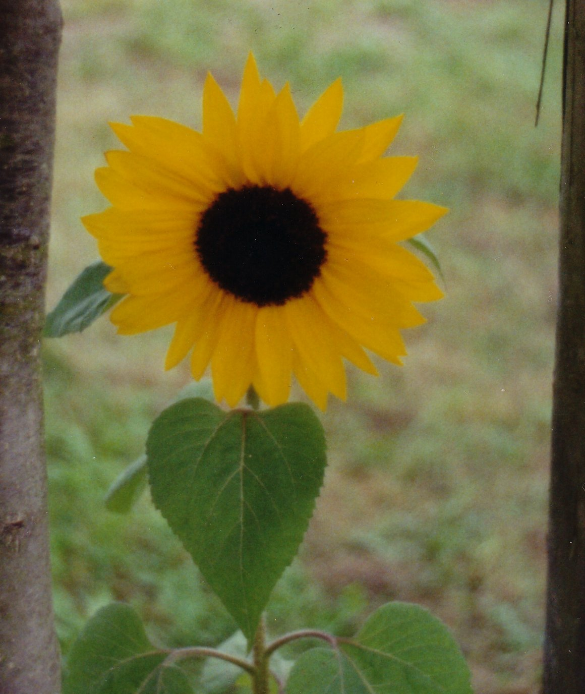 Flower of a Sunflower as JPEG (Joint Photographic Experts Group) photo